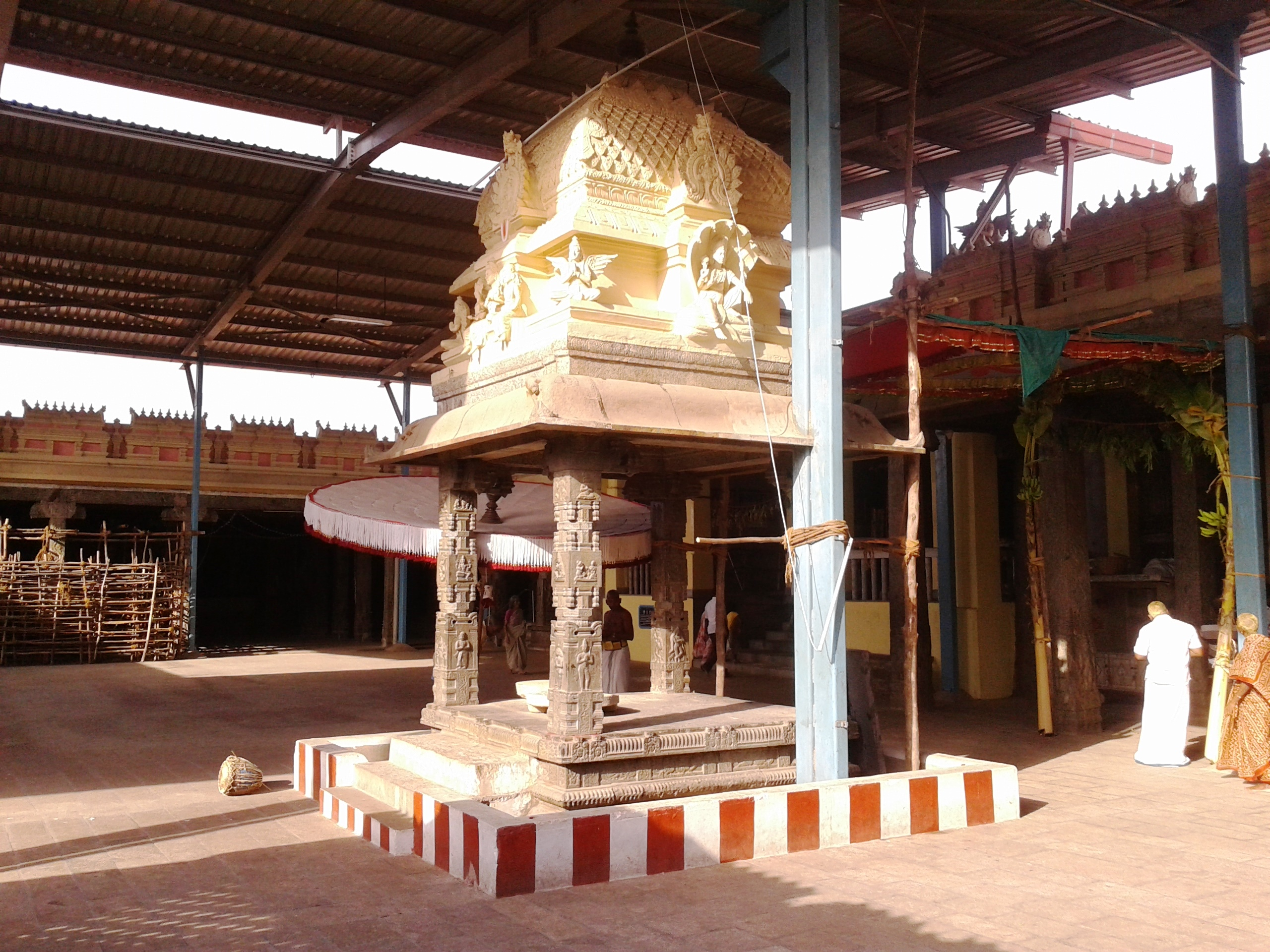 Veeraraghava Perumal Temple